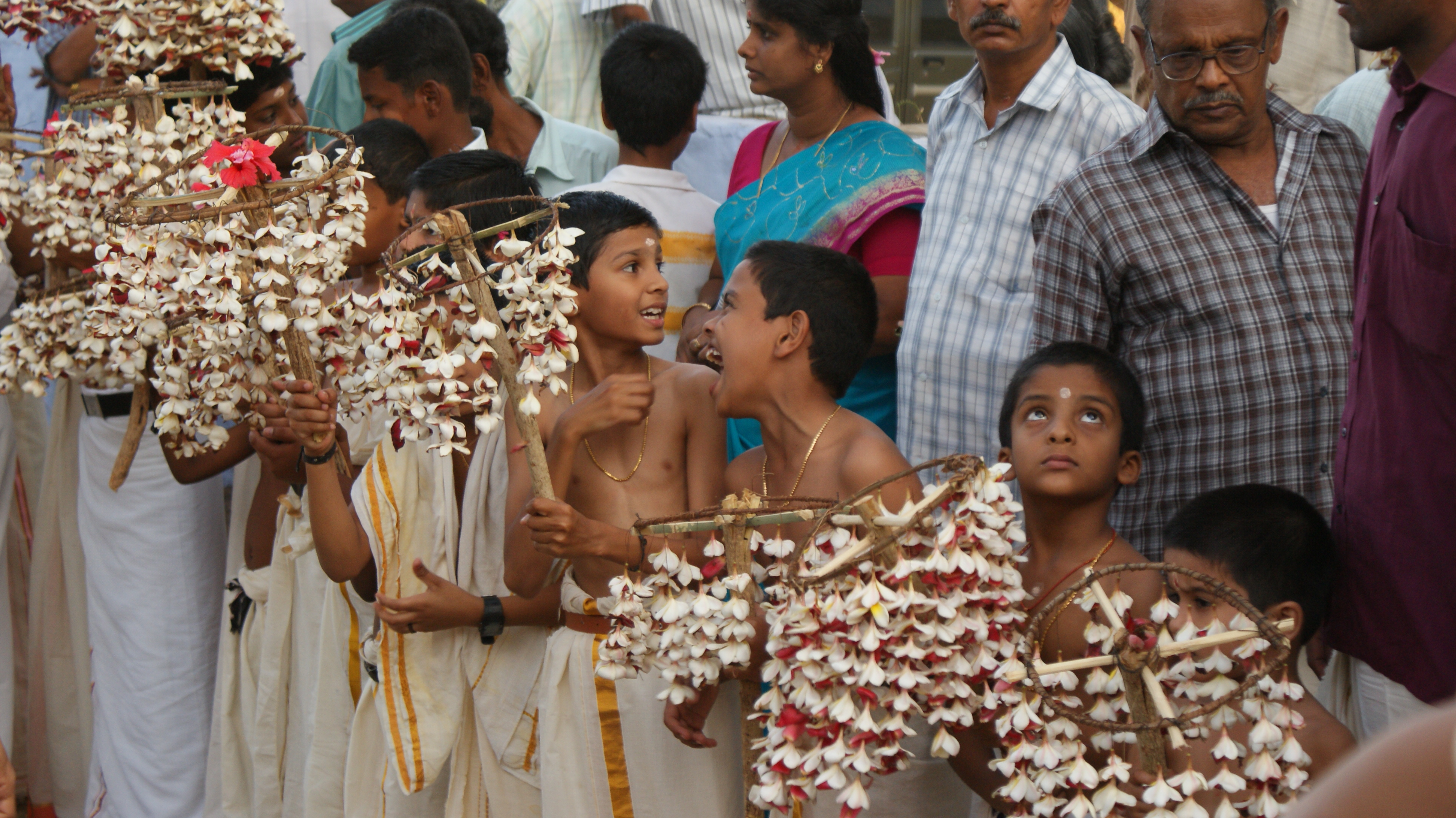 Vadavannur kumatti